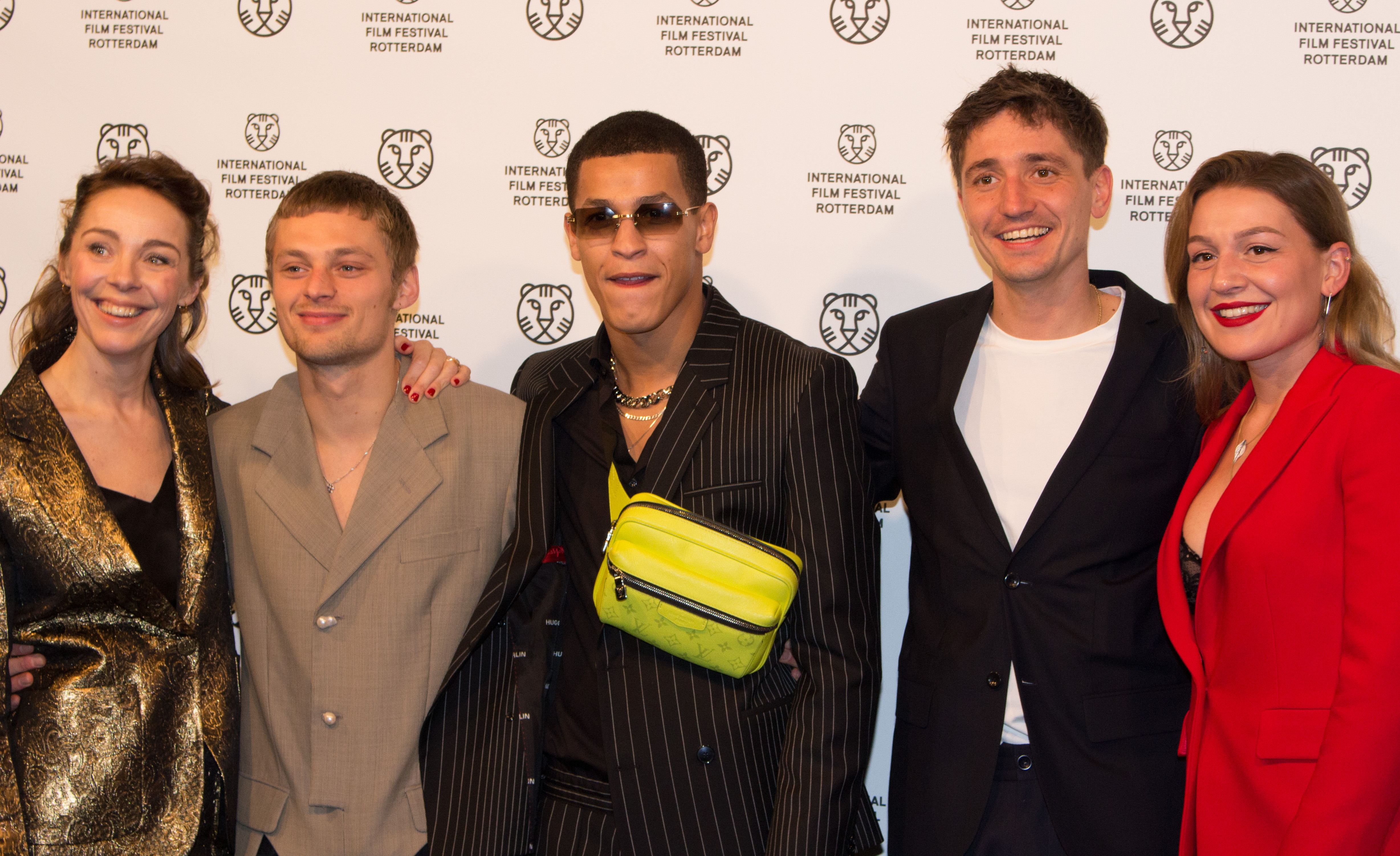 cast & crew of "Paradise Drifter" at the 49th International Film Festival Rotterdam